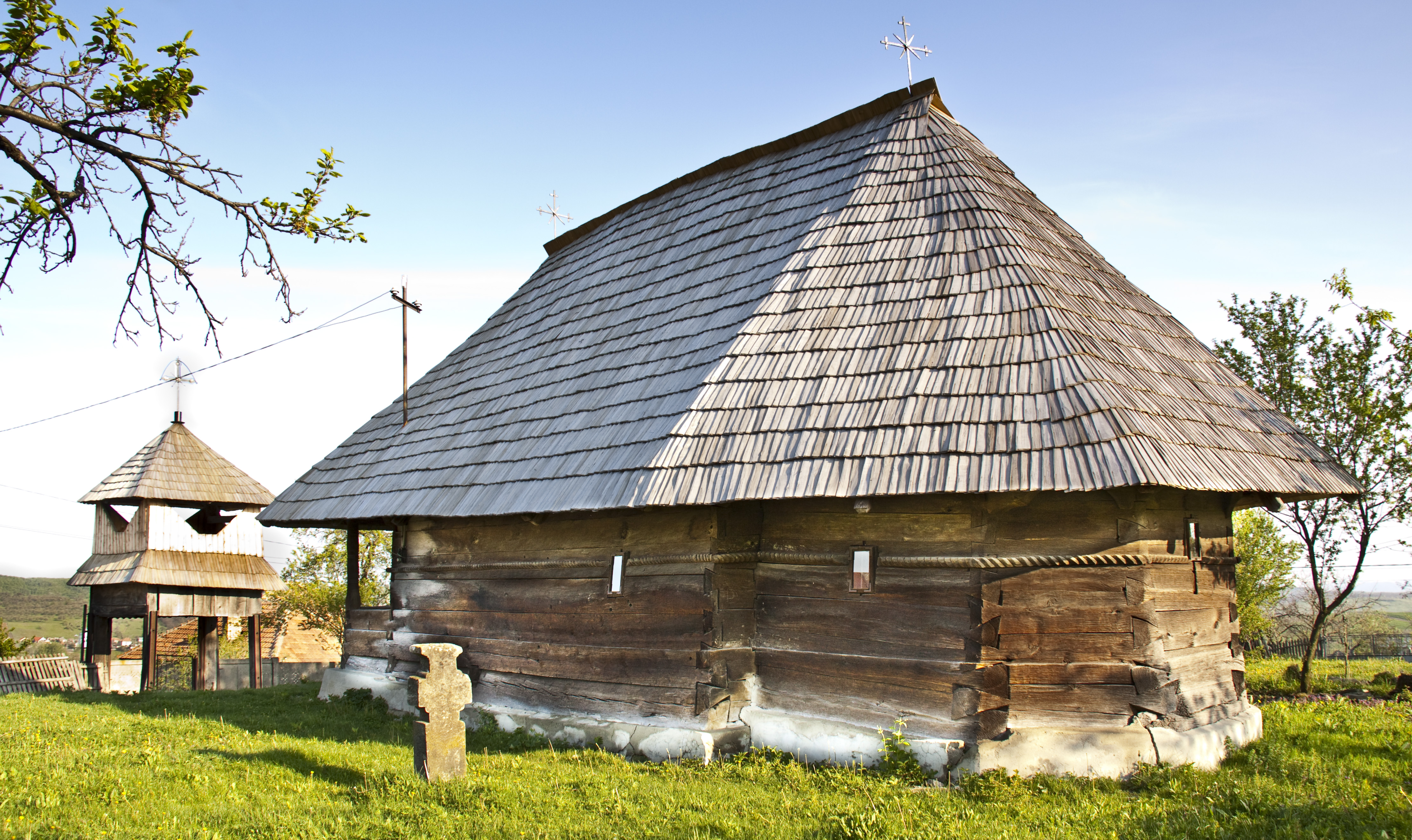 Dămţeni-Păsărei, Vâlcea county, Romania: the wooden church.